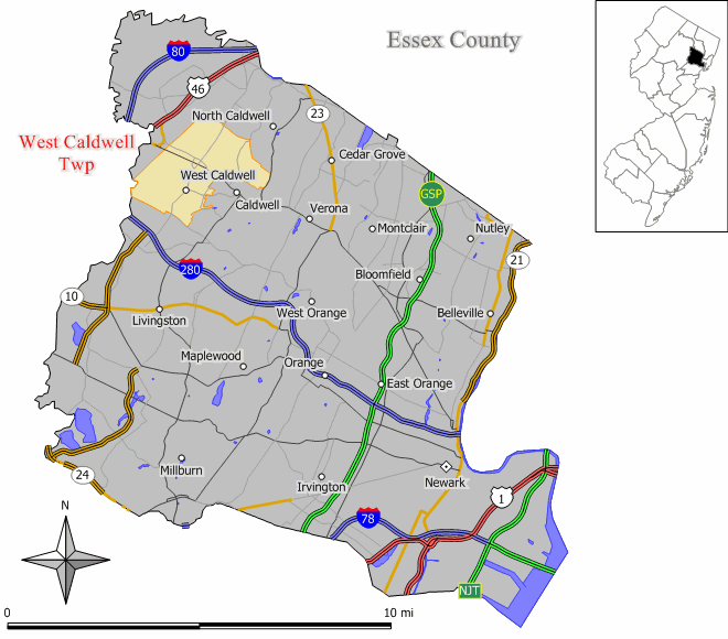 Source: Jim Irwin Original work by Jim Irwin, December 2005.